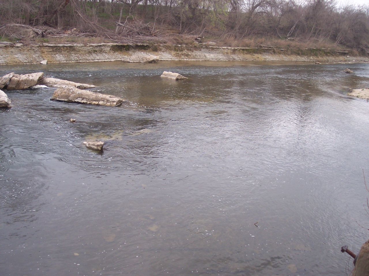 A view of Bosque River, Texas, USA.